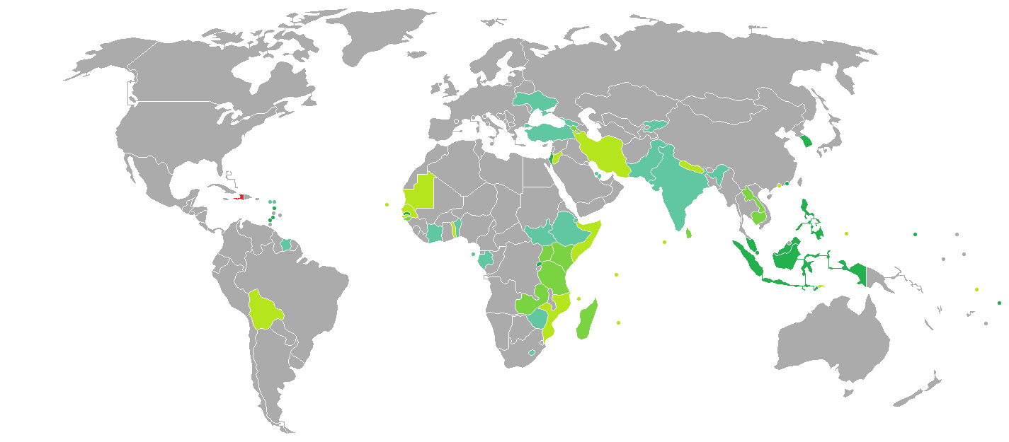 Visa requirements for Haitian citizens Haiti Visa-free Visa on arrival eVisa Visa available both on arrival or online Visa required